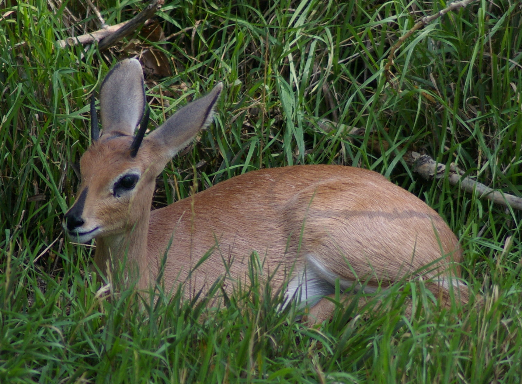 A Steenbok sitting in some grass, taken at the Denver Zoo.